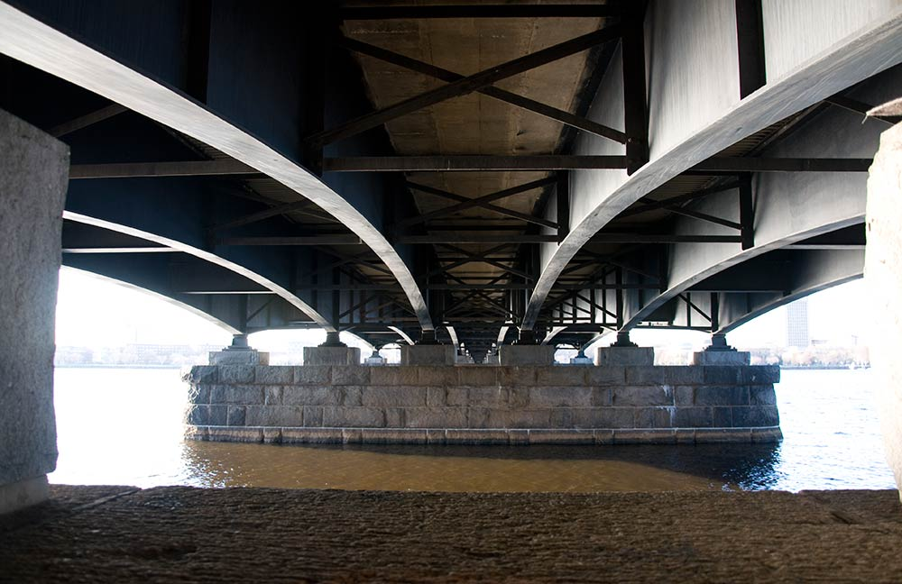 Harvard Bridge underside, looking north from the Boston end. This shows how the replacement superstructure was built with 6 longitudinal girders and how the bracing between them was constructed. Compare file:Underside, centerline, 1985.jpg